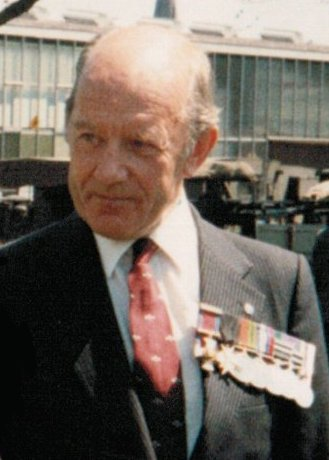 Major General Michael J. H. Walsh photographed at the Airborne Forces Day at Aldershot in Hampshire in 1987